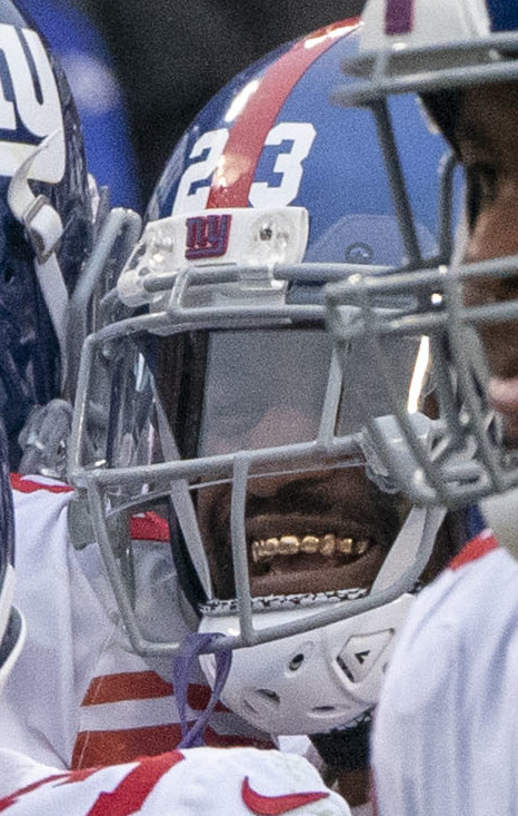 Alec Ogletree and New York Giants teammates at FedExField in December 2018.